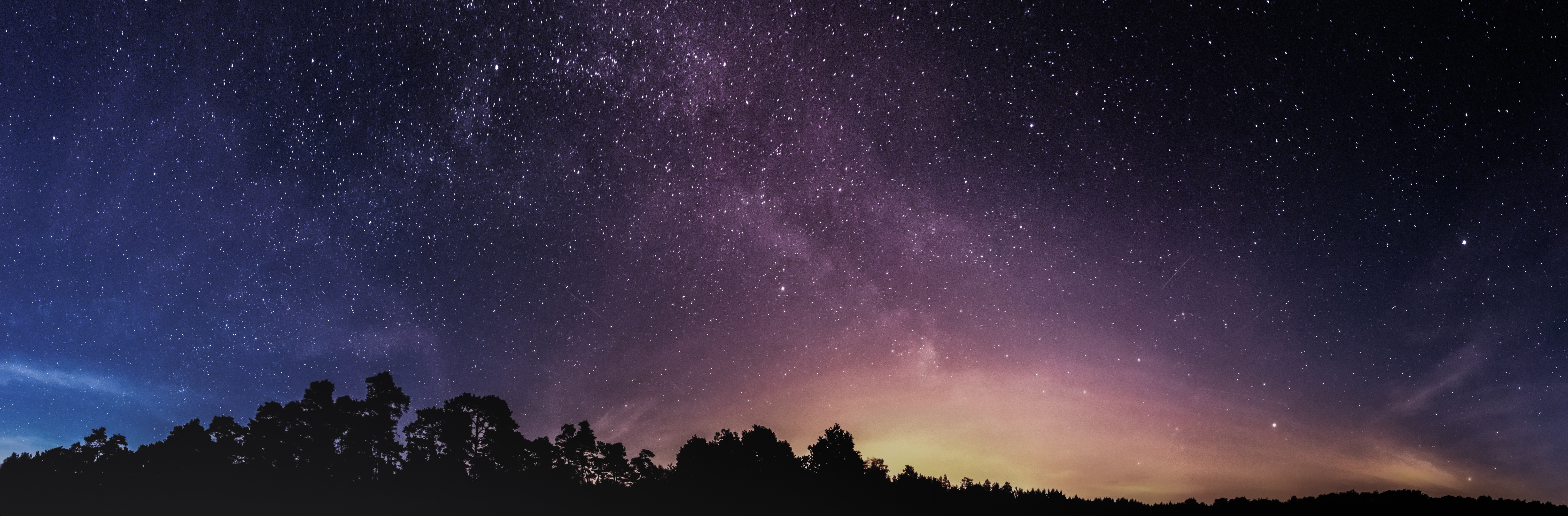 Part (~280°) of the starry sky near Brandenburg an der Havel (Germany), close to midnight.